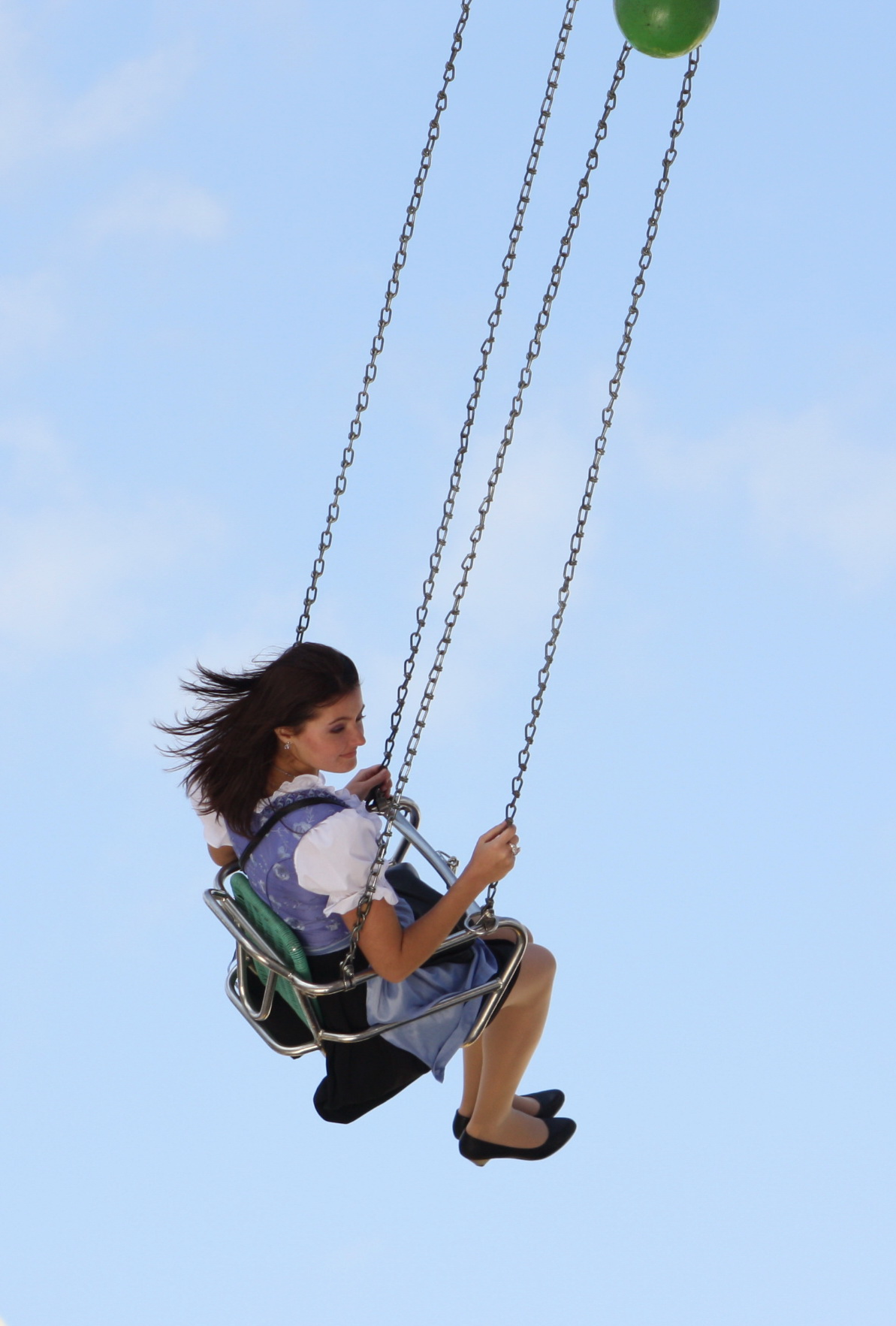 Young woman in "dirndl" in a carousel. Located on at Oktoberfest in Munich, Germany.